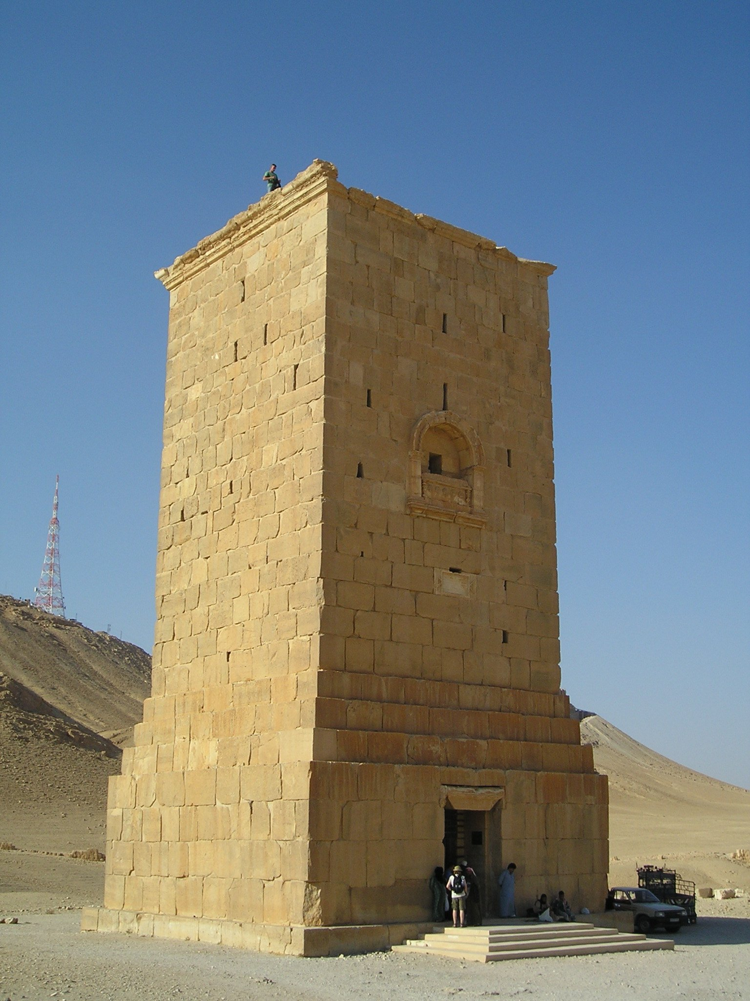 Palmyra, Syria - Elabel tower in the valley of the Tombs